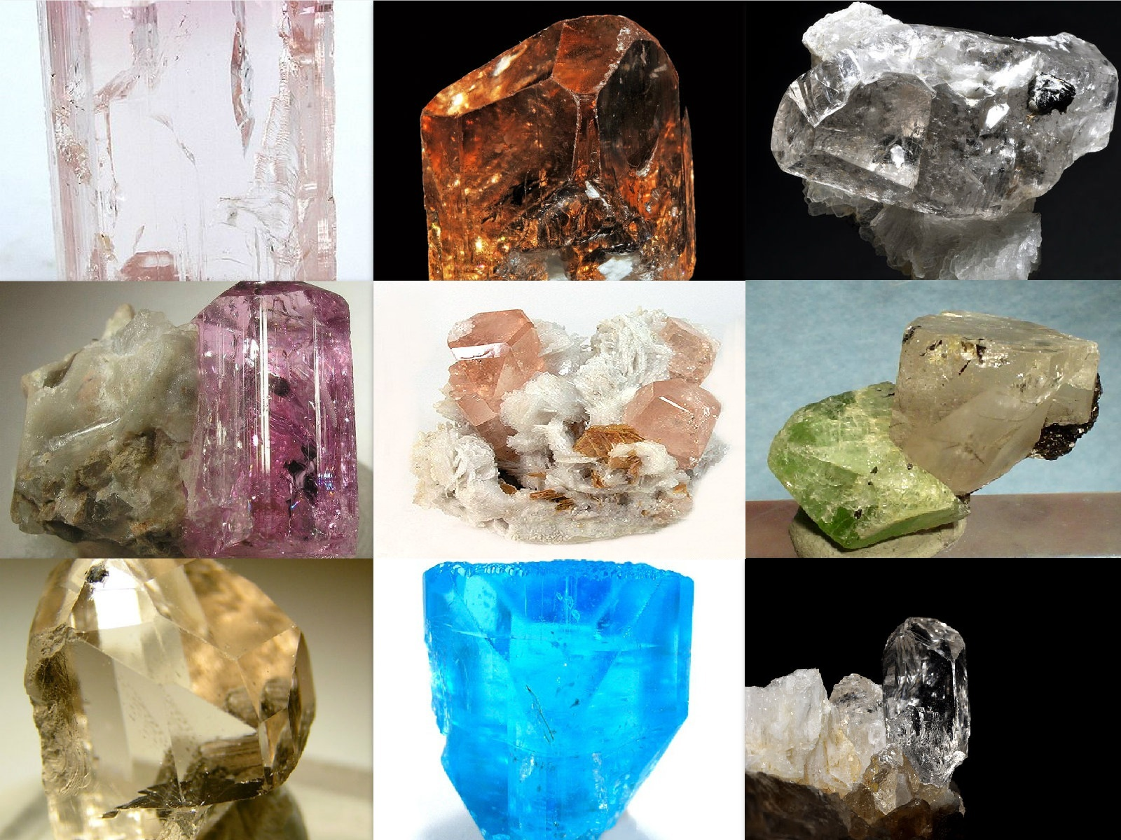 Topaz :: Various types of topaz found in Pakistan. 1st row (L-R): Pink topaz from Mardan, Cognac coloured topaz, Light pink topaz crystal with black tourmaline on matrix. 2nd row (L-R): Rare purple topaz from Katlang, Champagne coloured topaz on albite, Rare topaz and green hydroxylherderite from Dassu 3rd row (:-R): Naturally cut topaz from Shigar valley, Irradiated blue topaz, White topaz on matrix